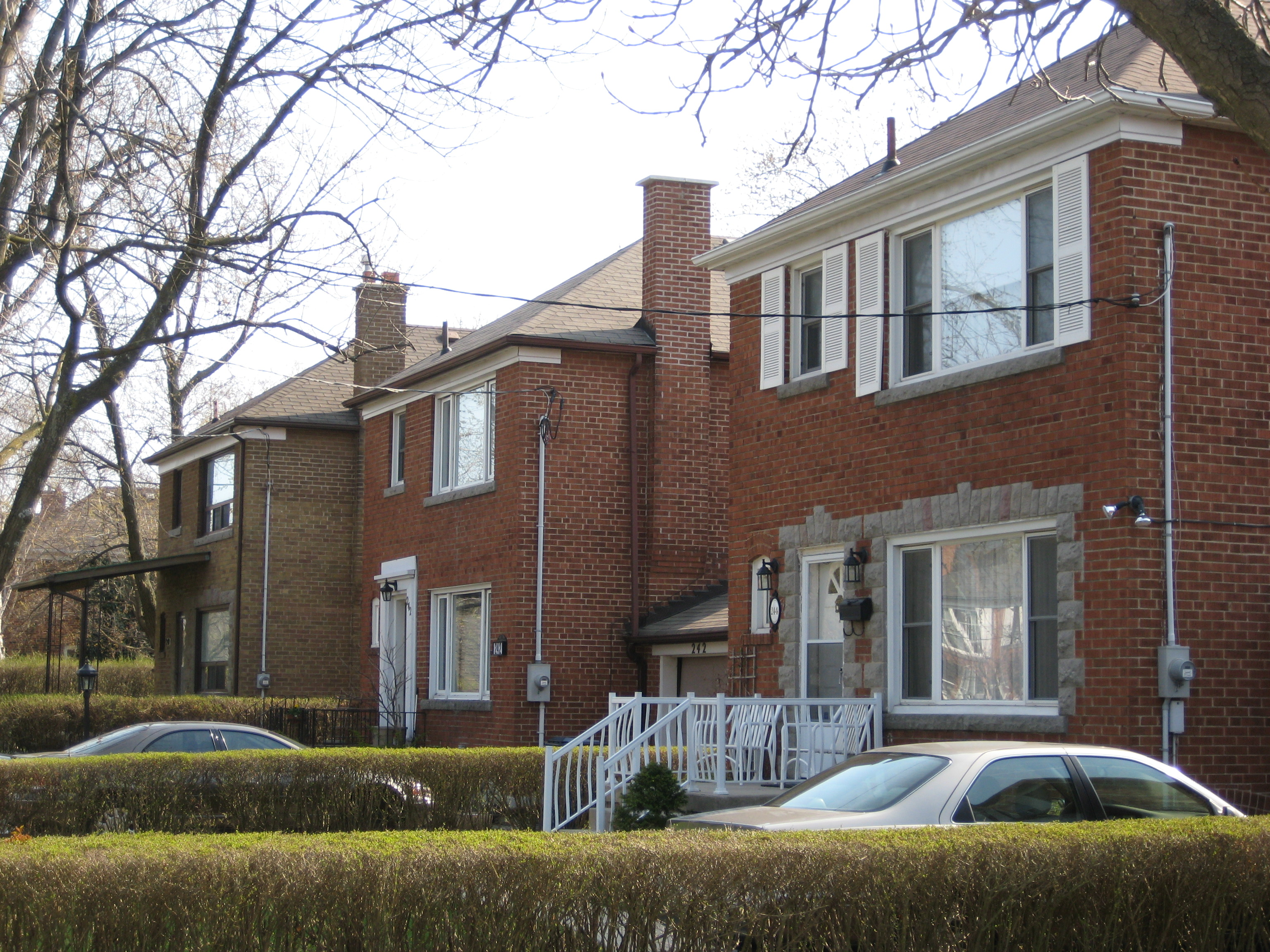 Armour Heights houses